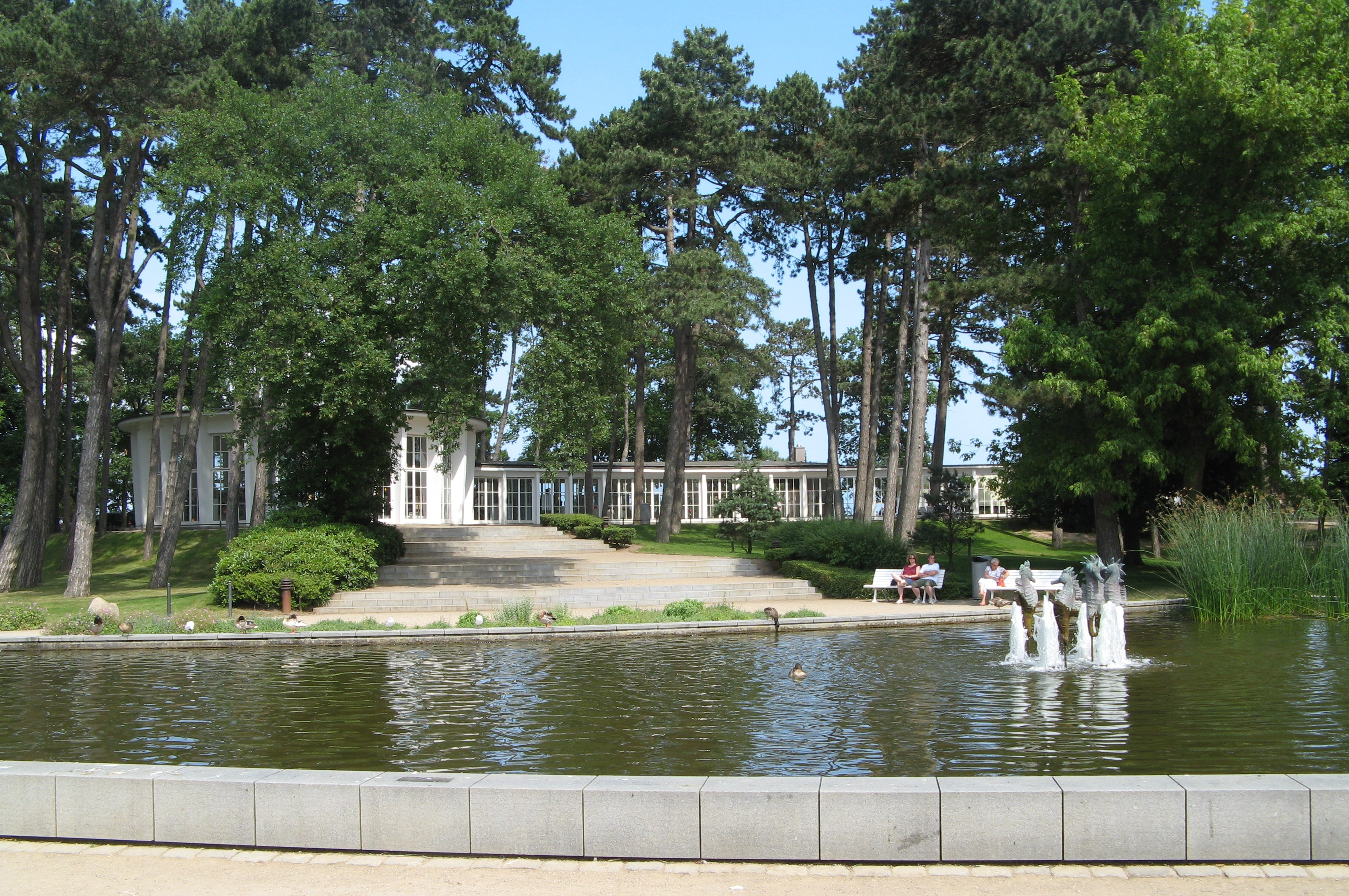 Timmendorfer Strand - Seahorse Fountain and Trinkkurhalle